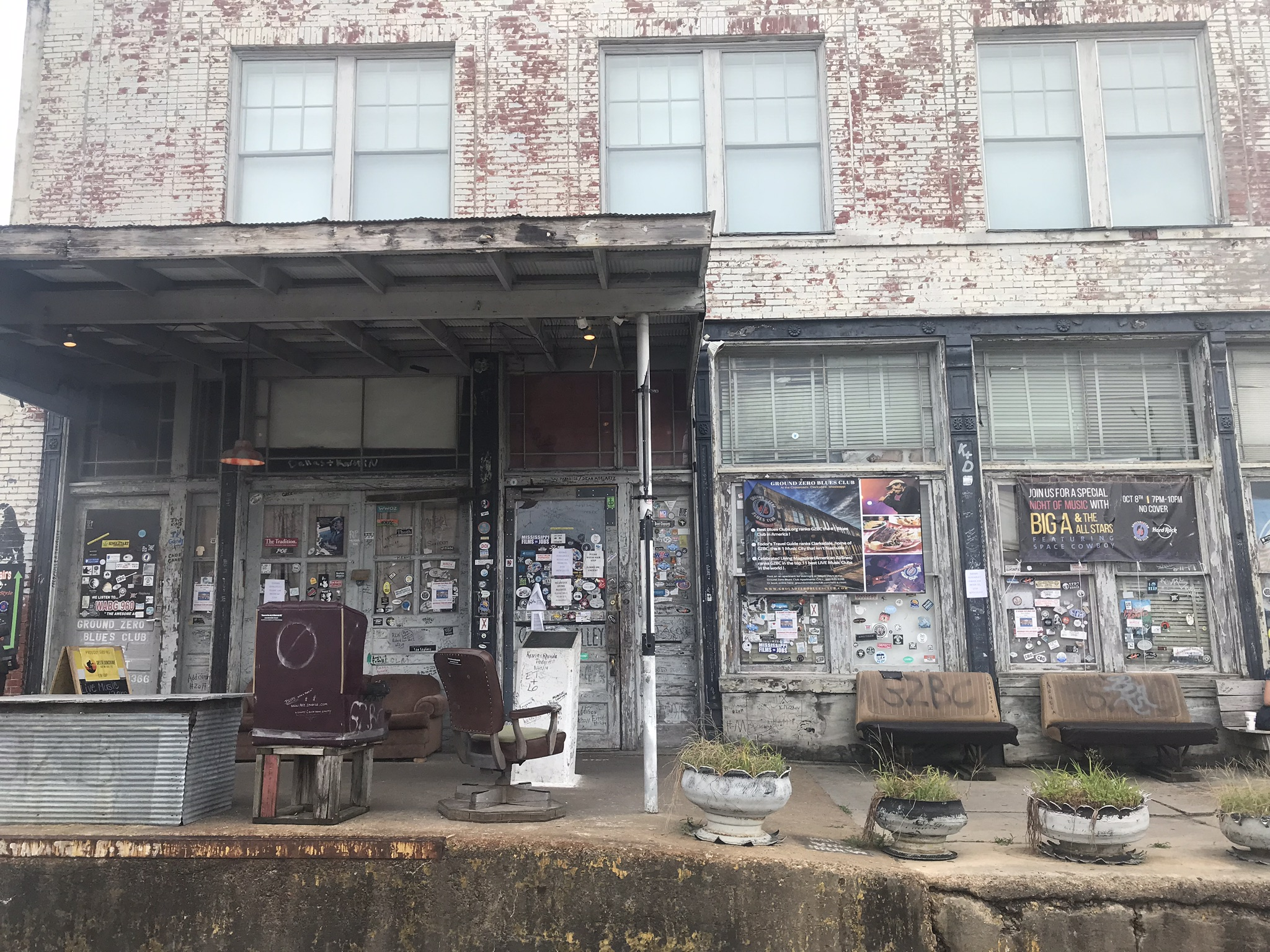 Ground Zero Blues Club, Clarksdale, Mississippi, United States.